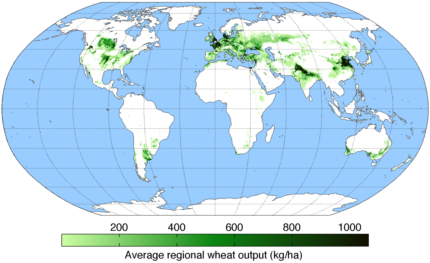 Map of wheat production (average percentage of land used for its production times average yield in each grid cell) across the world compiled by the University of Minnesota Institute on the Environment with data from: Monfreda, C., N. Ramankutty, and J.A. Foley. 2008. Farming the planet: 2. Geographic distribution of crop areas, yields, physiological types, and net primary production in the year 2000. Global Biogeochemical Cycles 22: GB1022